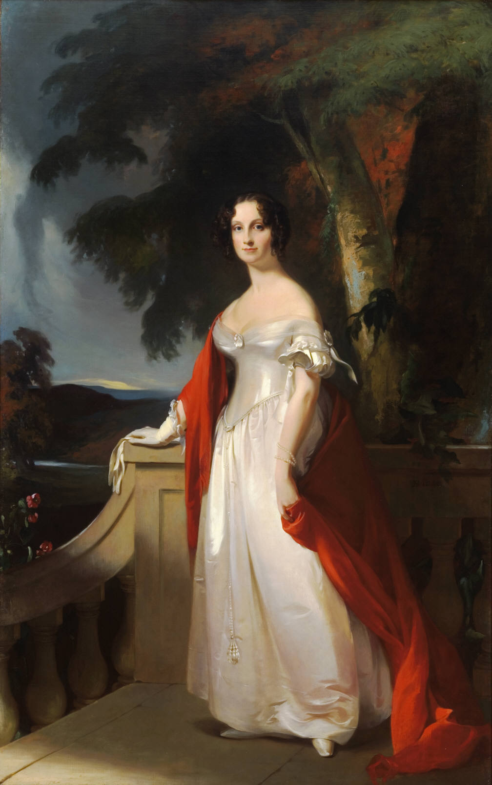 Thomas Sully, American, born England, 1783–1872 Mrs. Reverdy Johnson, ca. 1840 Oil on canvas 239.0 x 150.0 cm. (94 1/8 x 59 1/16 in.) frame: 290.8 x 201.9 x 15.2 cm. (114 1/2 x 79 1/2 x 6 in.) Museum purchase with funds given by twenty-one Friends of the University, aided by the Caroline G. Mather Fund y1949-108